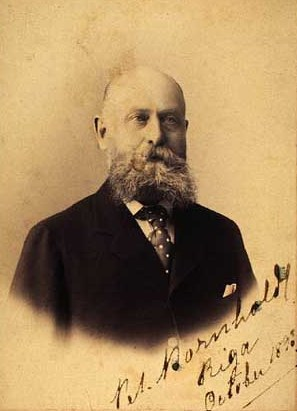 Niels Peter Anton Bornholdt (1842-1924), Danish merchant and estate owner